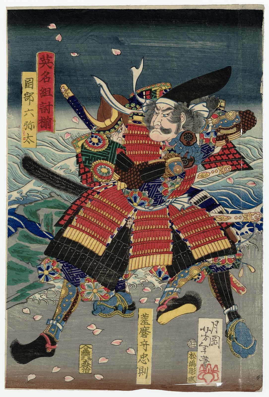 from the series A Collection of Heroes in Combat (Eimei kumiuchi soroe)